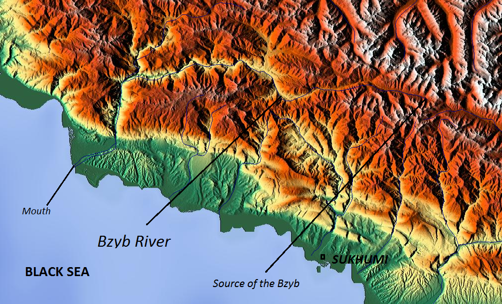 Map showing Bzyb River, Abkhazia